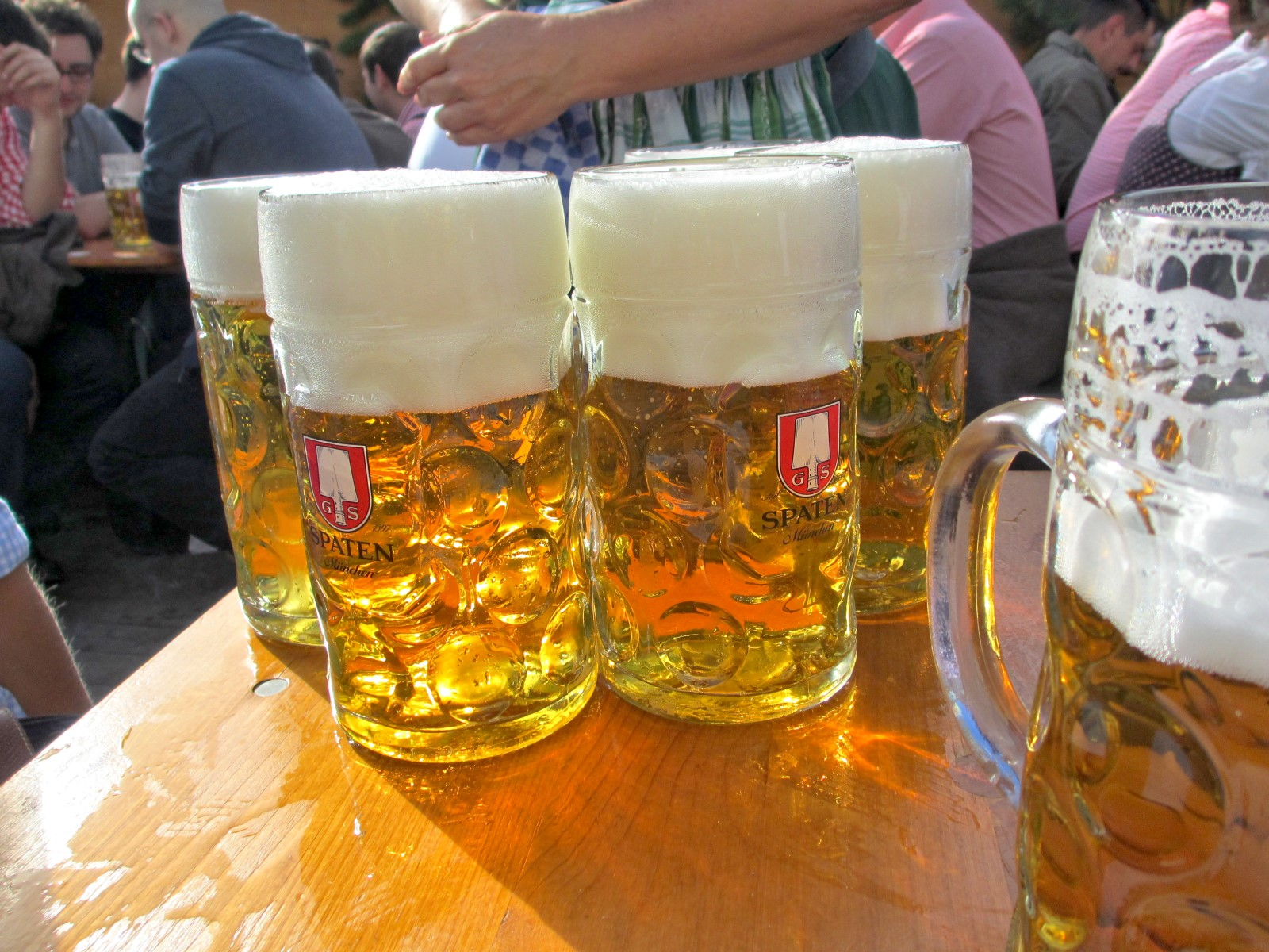 Bavarian Beer at Oktoberfest